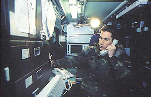 A German Radio technician works in the Satellite Communication Uplink Multiplex in Split, Croatia. NATO Peace Implementation Force (IFOR).